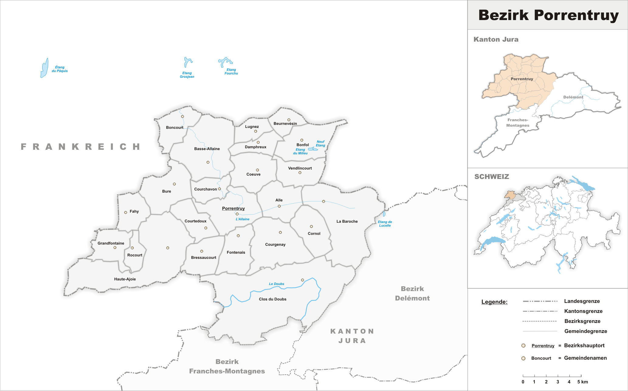 Municipalities in the district of Porrentruy to 2009